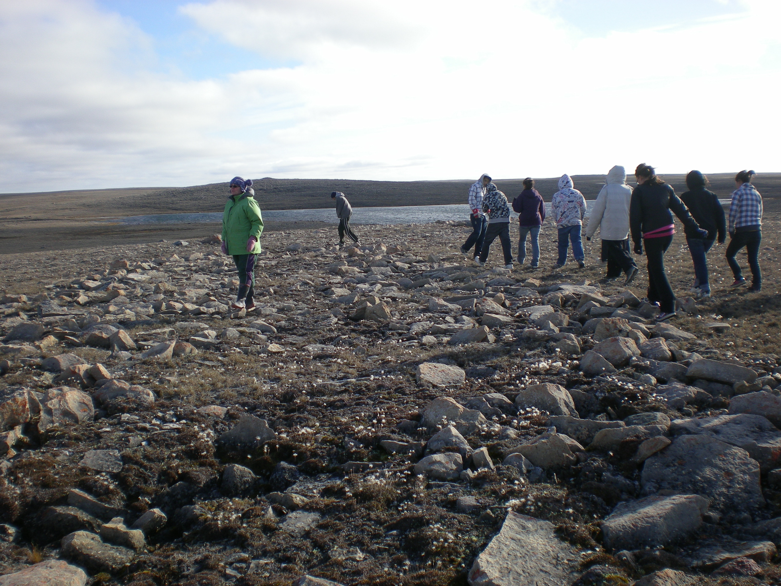 A Dorset culture stone longhouse near Cambridge Bay, Nunavut, Canada. The house was rediscovered by accident when a group returning from another archaeological site flew over the longhouse and noticed it.